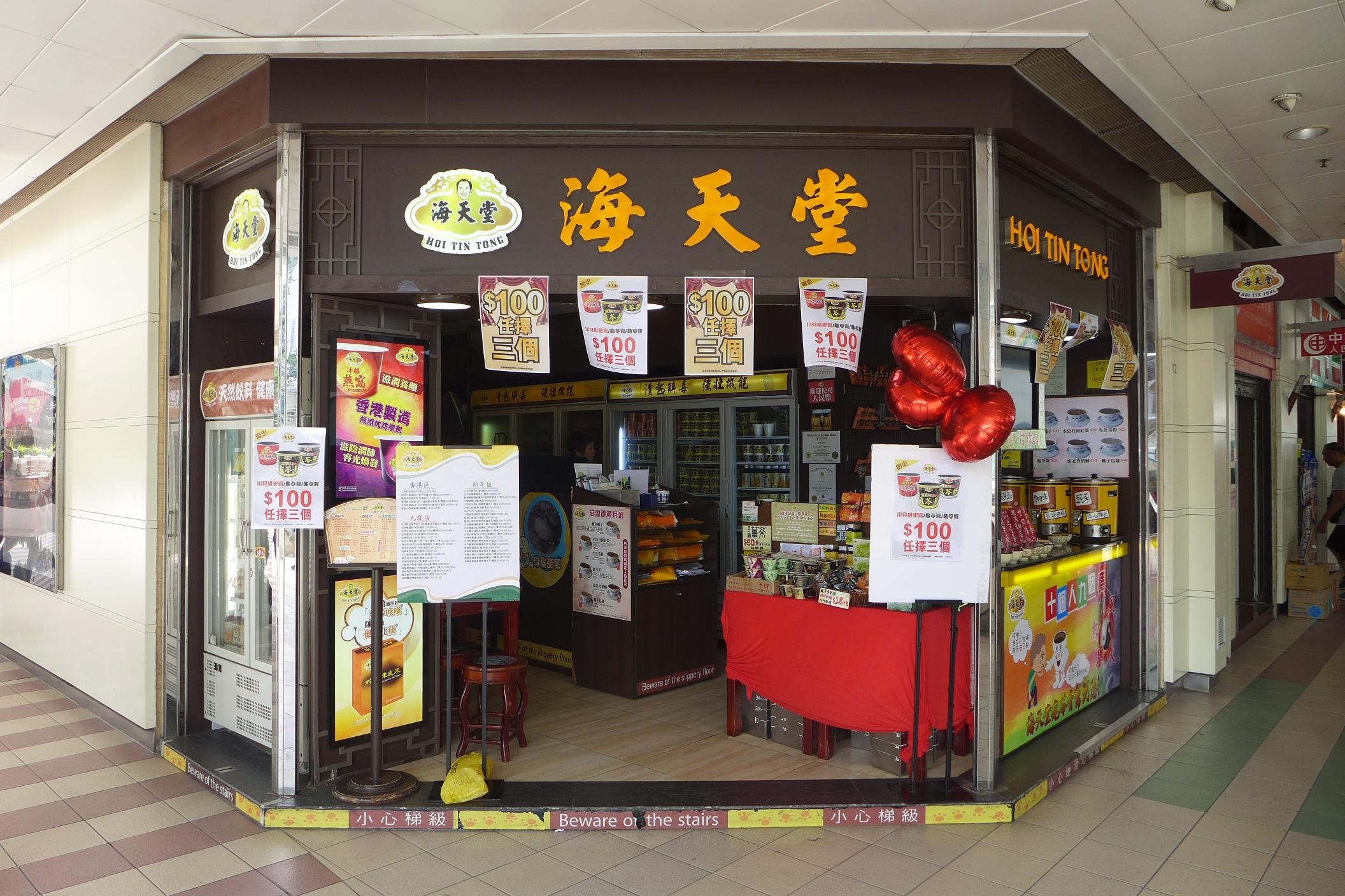 Hoi Tin Tong in Shatin Centre